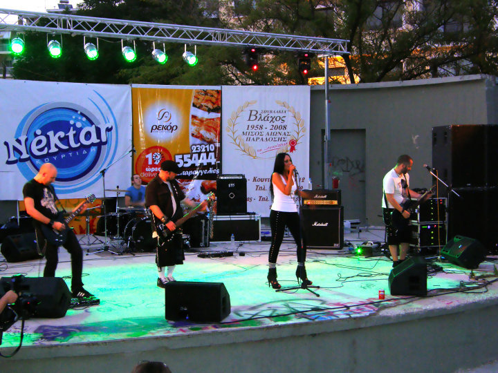 ELYSION - Female Fronted Gothic Metal Band from Greece